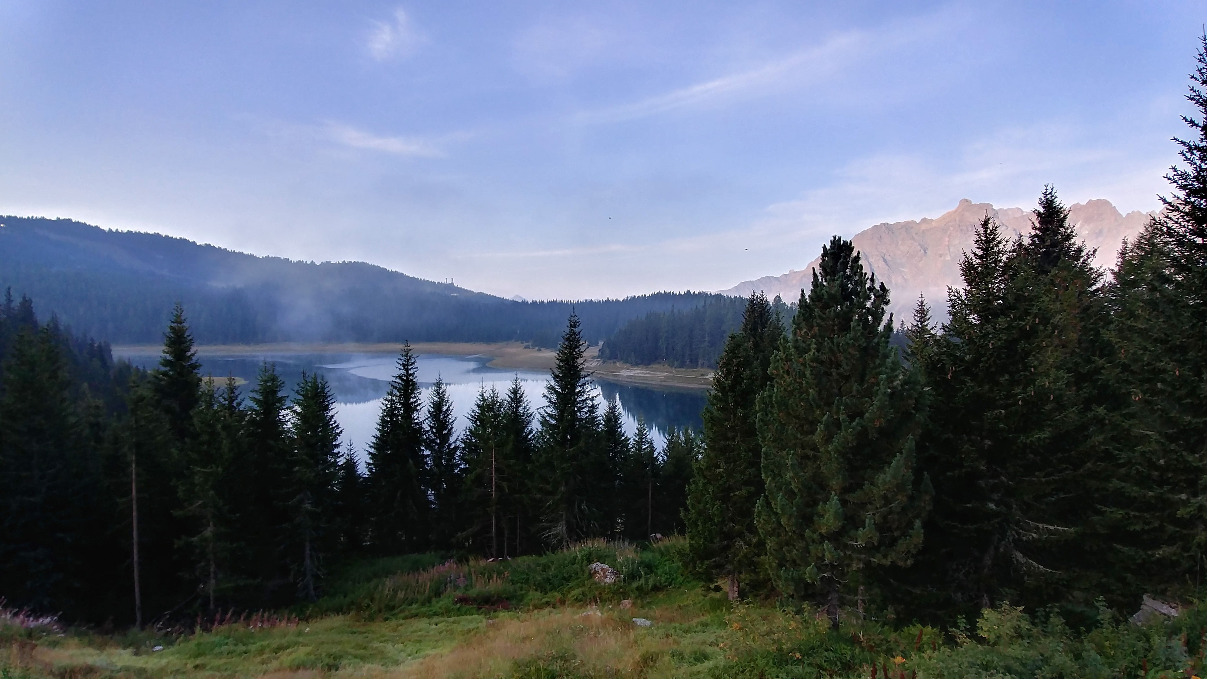 Lake Palù seen from Palù hut